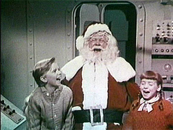 Screenshot from the movie "Santa Claus Conquers the Martians" which has been released as Public Domain: [2]